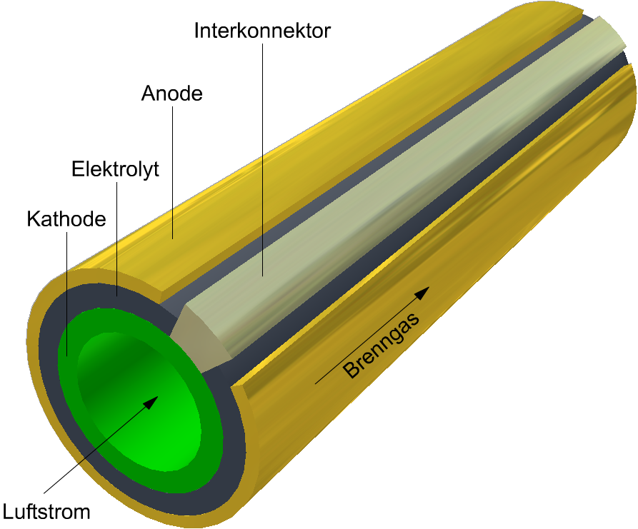 Tubular Solid Oxid Fuel Cell